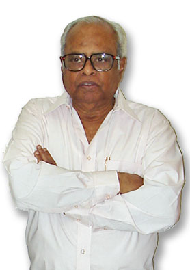 Famous Indian director K. Balachander